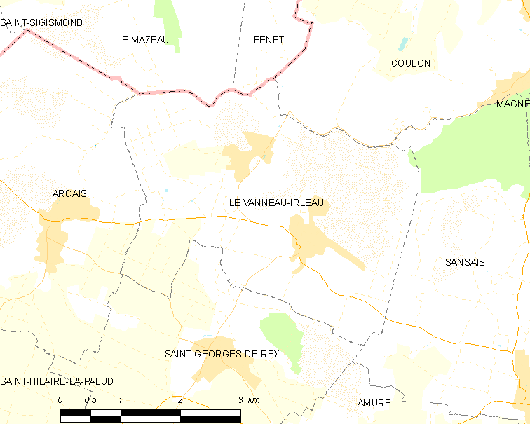 Map of French municipality Le Vanneau-Irleau